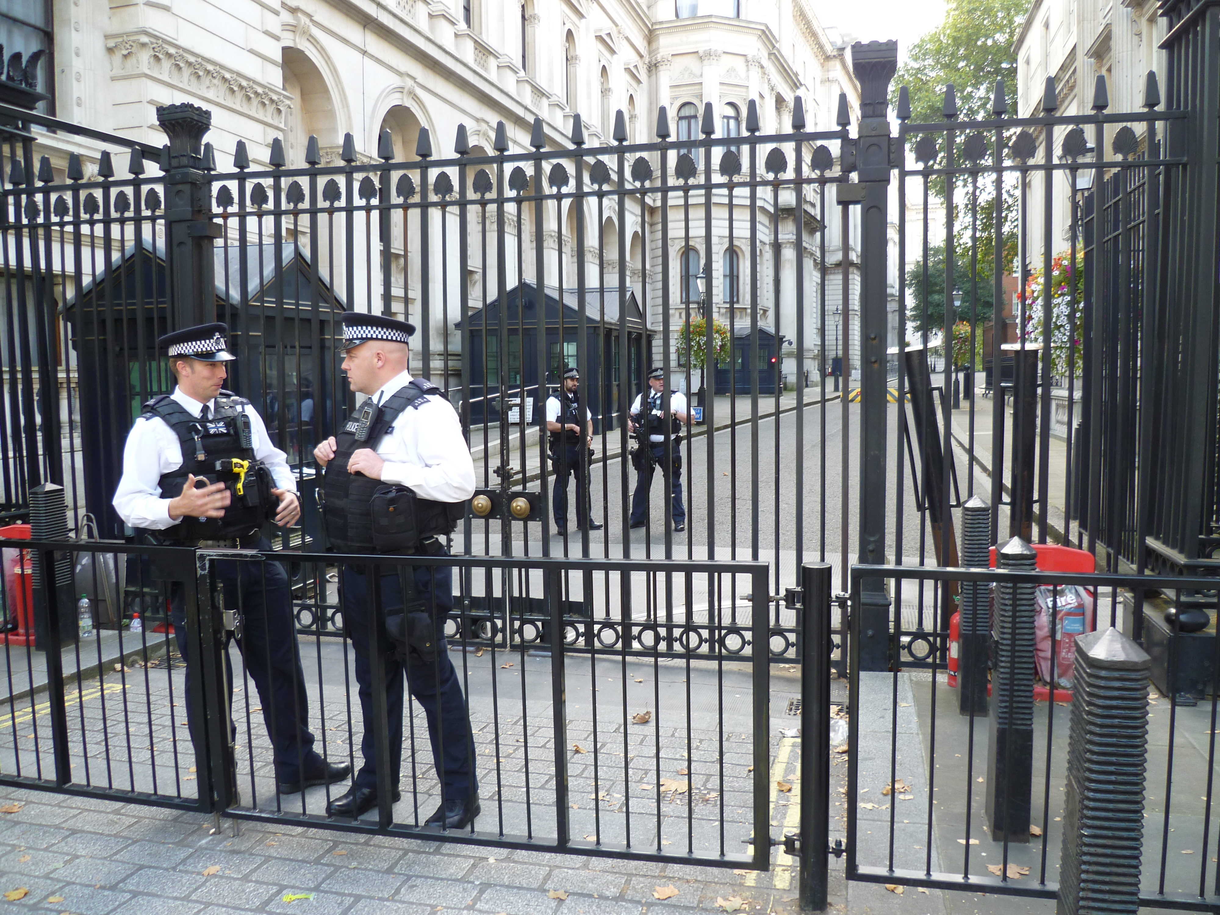 Downing Street, London